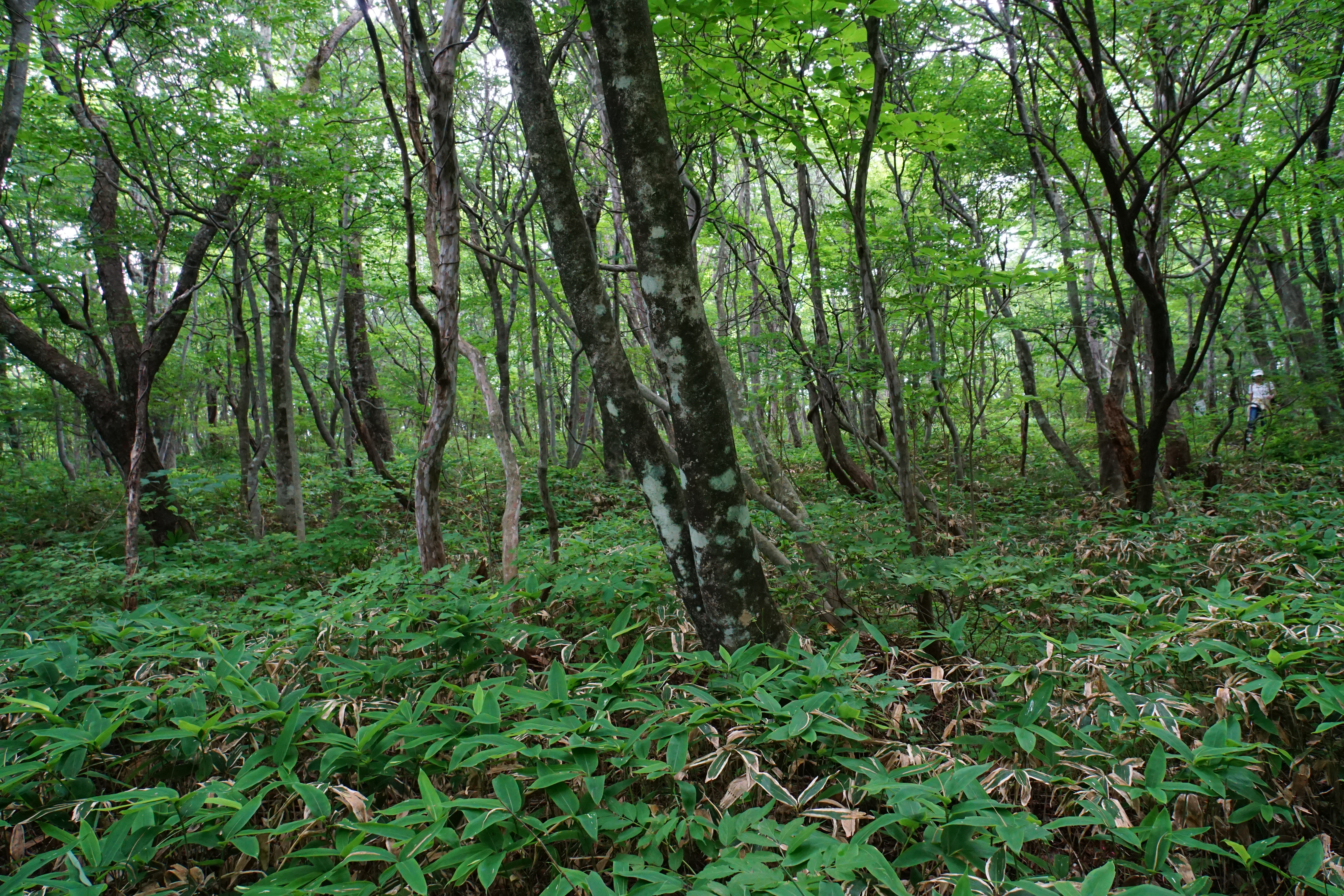 Nasu_Heisei-no-mori_Forest in Nasu, Tochigi prefecture, Japan